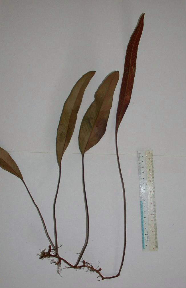 Name Pyrrosia lingua （ヒトツバ） Family Polypodiaceae(Pteridophyta) Date;2006,11;Susami town, Wakayama prefecture, Japan Author;Keisotyo